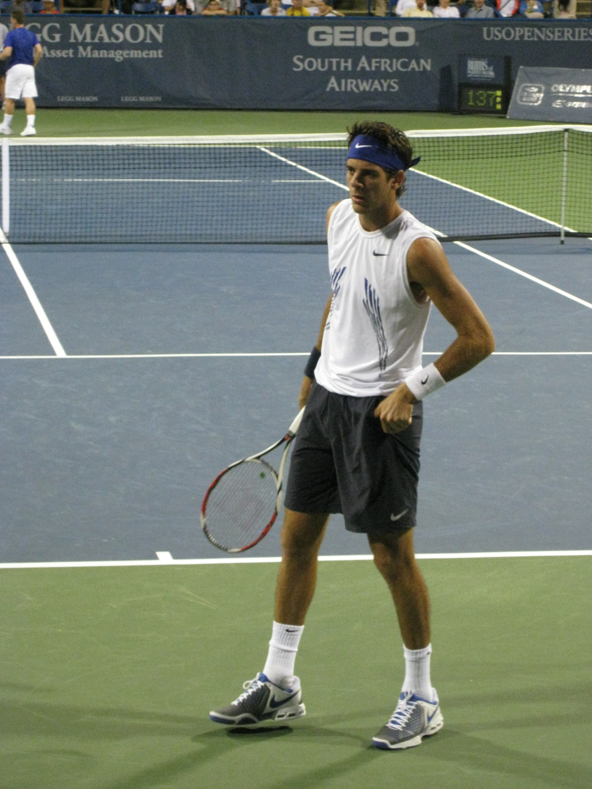 Juan Martin del Potro at the 2008 Legg Mason Tennis Classic